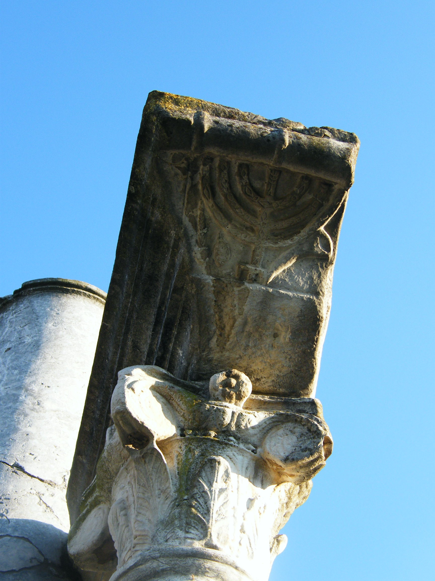 Ostia Antica Synagogue menora column